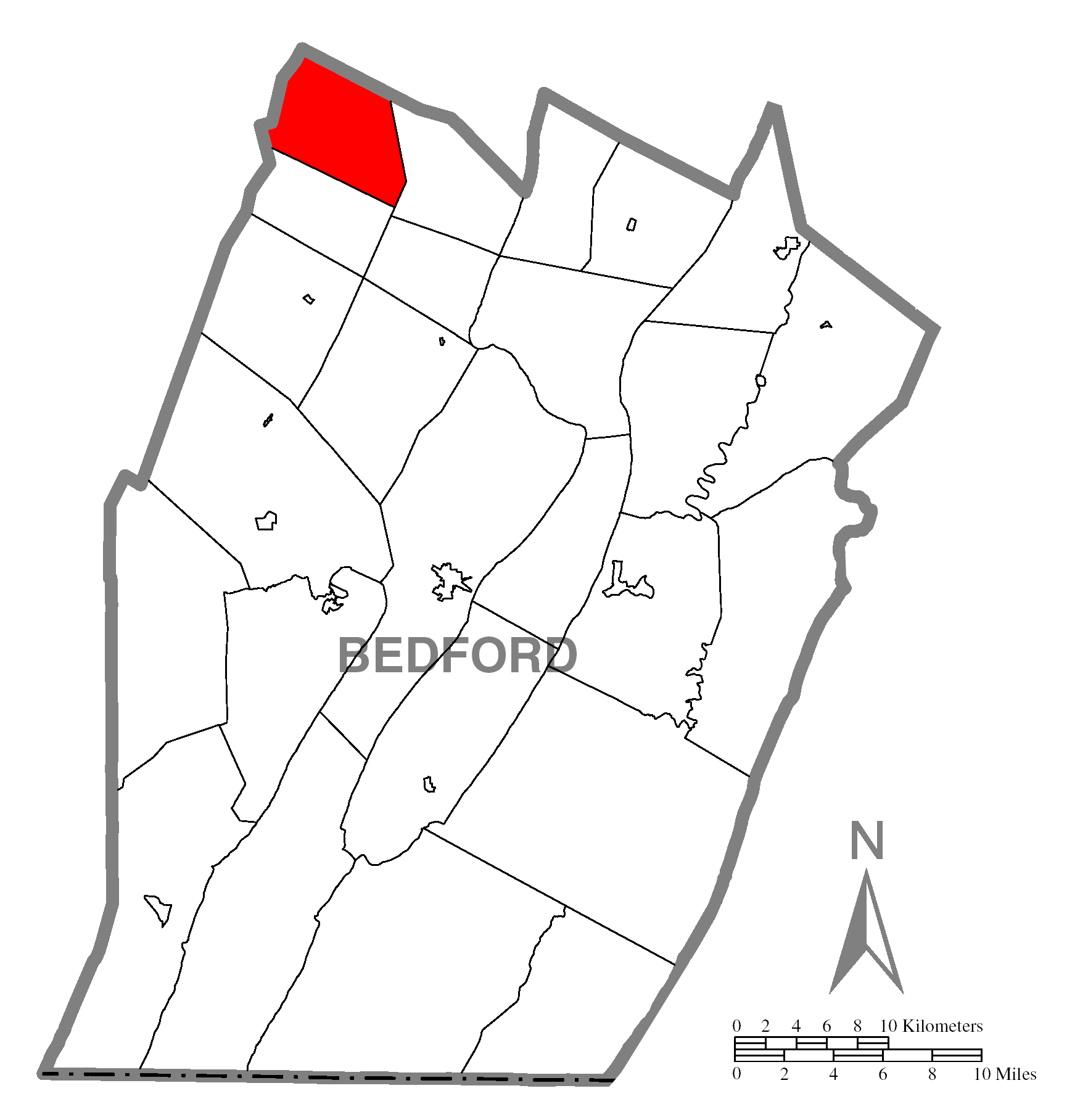 A map of Bedford County showing Pavia Township, Pennsylvania (alternate) highlighted on the map.